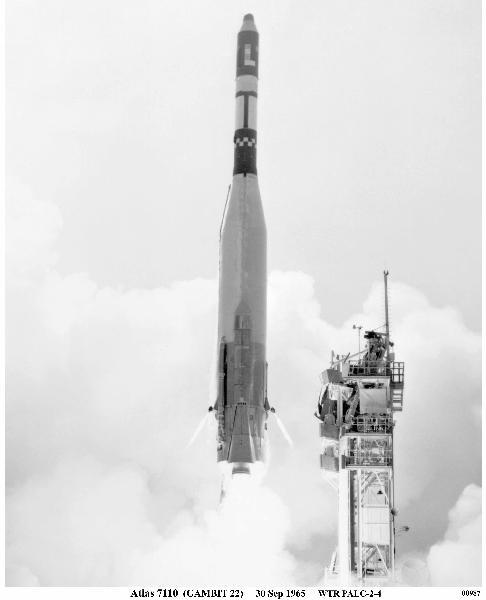 Launch of the Atlas SLV-3 Agena D rocket with satellite KH-7 22 (Improved SAMOS 22; GAMBIT 22; OPS 7208 or 6004)), September 30, 1965.}